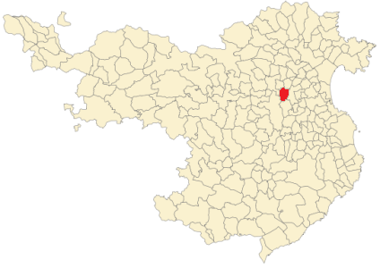 Pontós